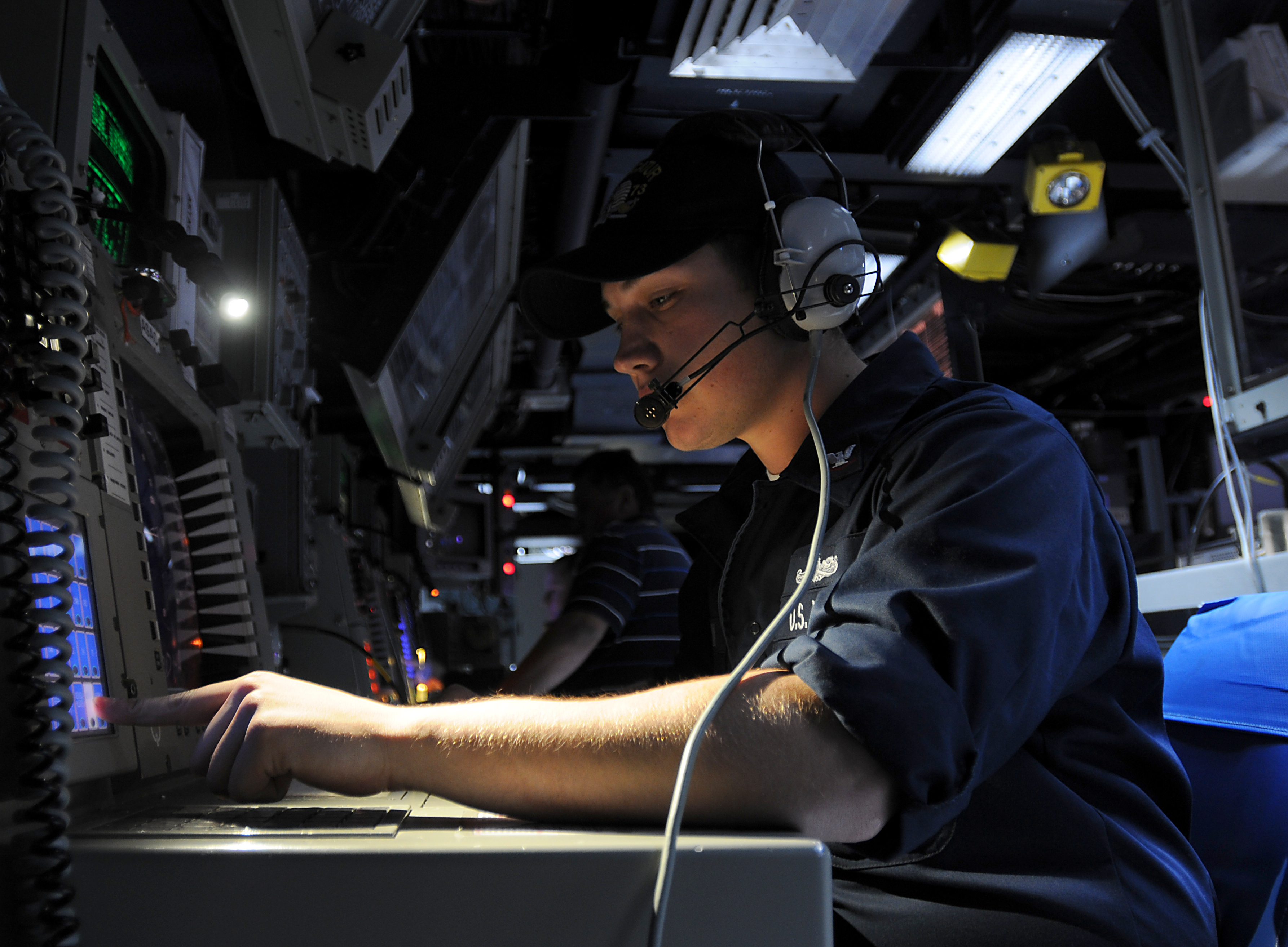 SAN DIEGO (Aug. 27, 2010) Fire Controlman 3rd Class Tyler Wyman operates a radar system control console during a ballistic missile defense exercise (BMDX) aboard the guided-missile destroyer USS Decatur (DDG 73) in San Diego. BMDX is a coast to coast synthetic integrated exercise that is designed to prepare ships deploying for BMD missions using live data link and communications. (U.S. Navy photo by Mass Communication Specialist 2nd Class Phillip Pavlovich/Released)